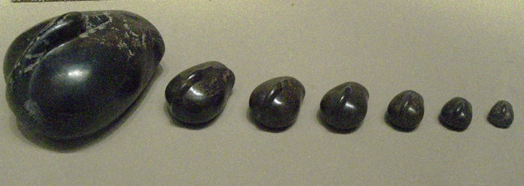 Haematite weights in form of ducks. Ancient Mesopotamia, about 1700 BCE.